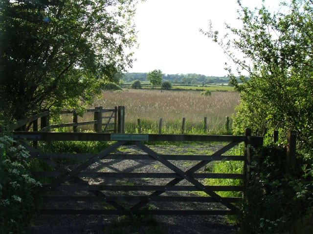 Gate leading to the nature reserve. Gate that leads into the Cors Bodeilio Nature Reserve